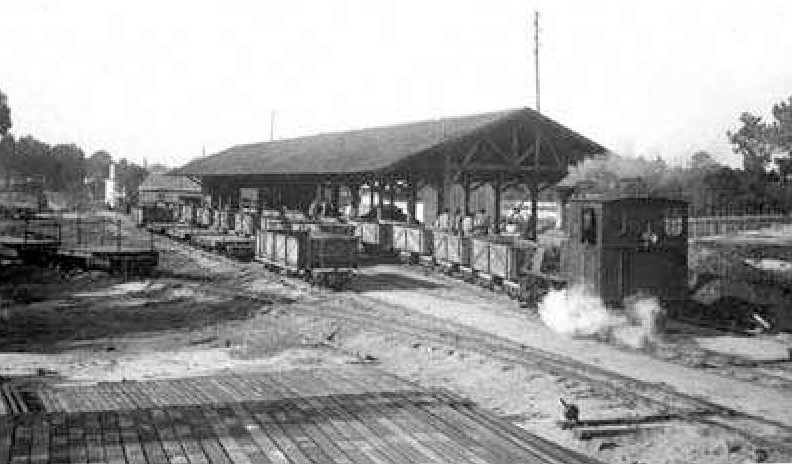 Train of the Lena mines in the private quay of the Martingança train station, in Portugal, on 1927. This photograph was taken from the work "Caminho de Ferro Mineiro do Lena: desígnio de progresso industrial e social", by José M. Brandão. Was part of the collection of the Arquivo Histórico Mineiro, by the Instituto Nacional de Engenharia, Tecnologia e Inovação.